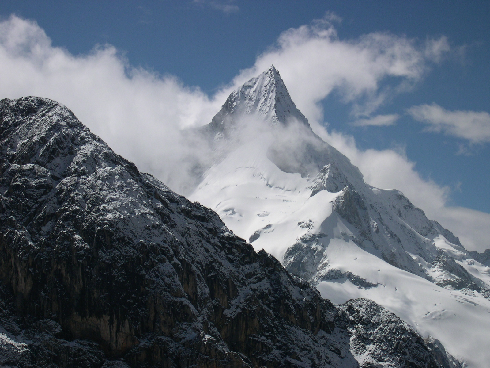 Nevado Pariacaca